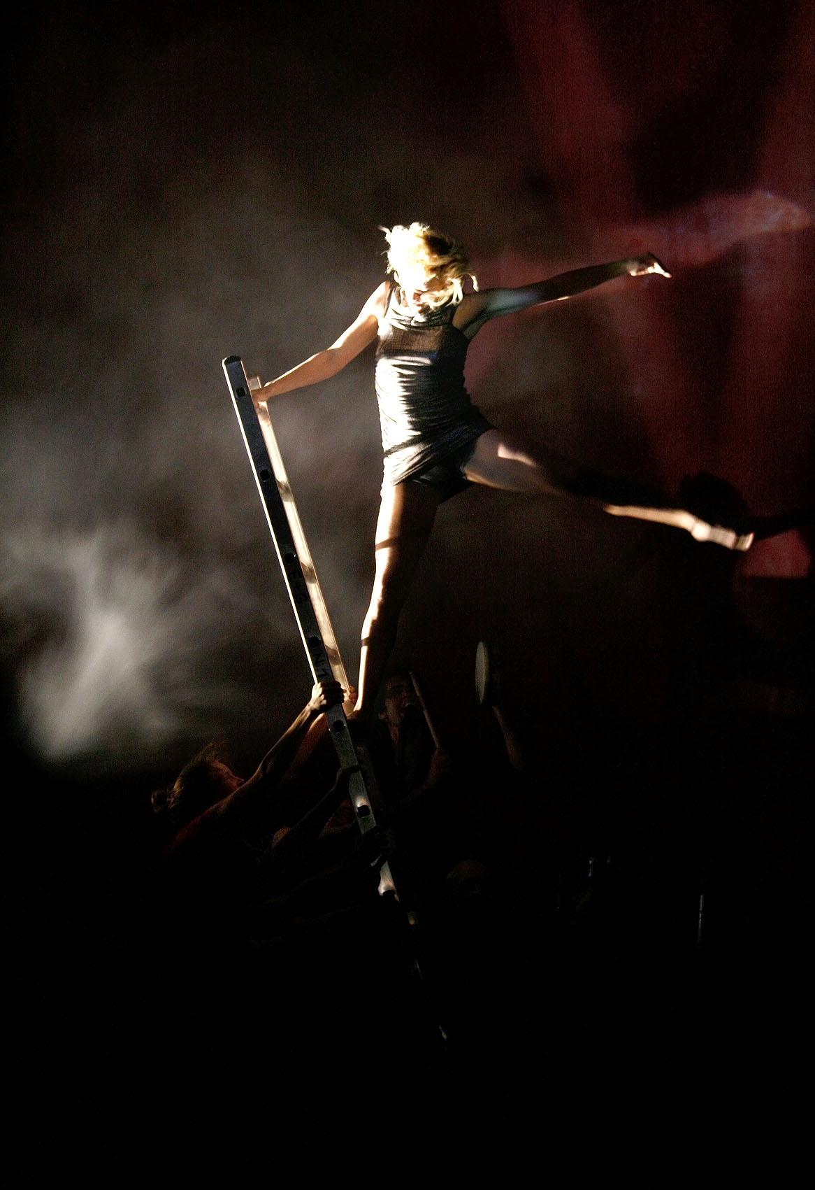 Wim Vandekeybus/Ultima Vez and Mauro Pawlowski presenting What's the Prediction? at the opening of the ImPulsTanz Vienna International Dance Festival (Museumsquartier, Vienna).